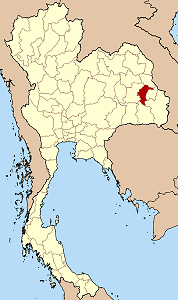 Map of Thailand highlighting Yasothon province